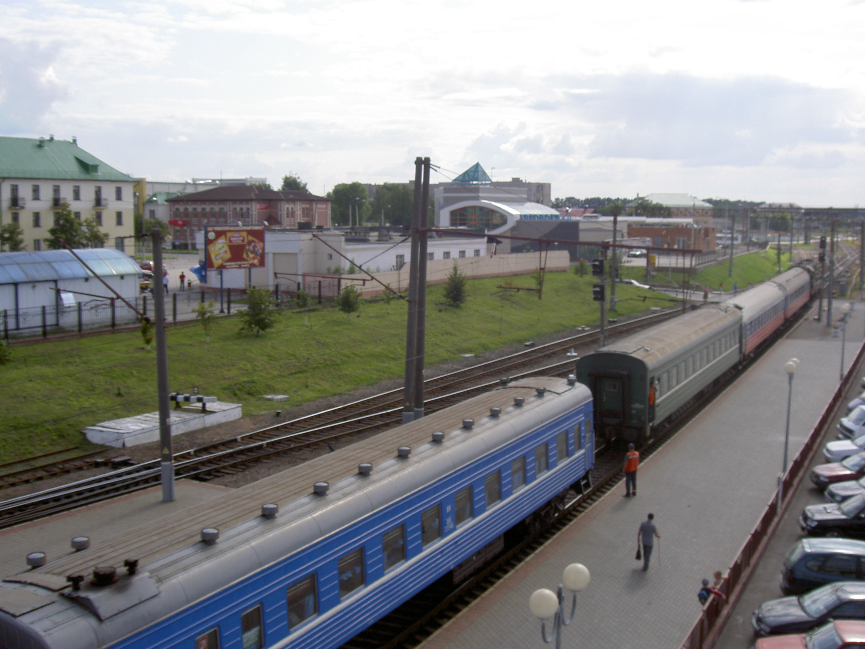 Orsha station